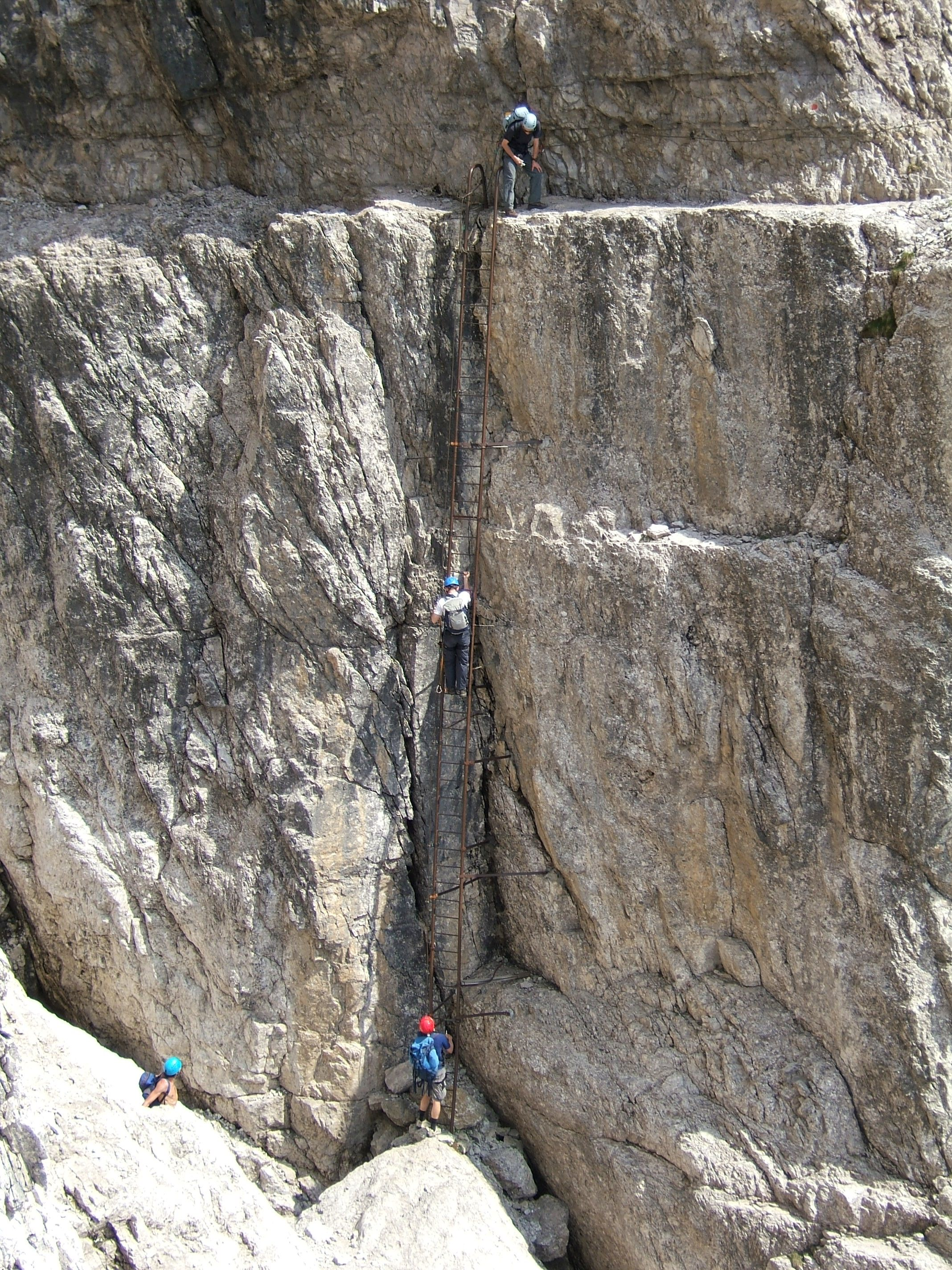 Via Ferrata route in Brenta Group